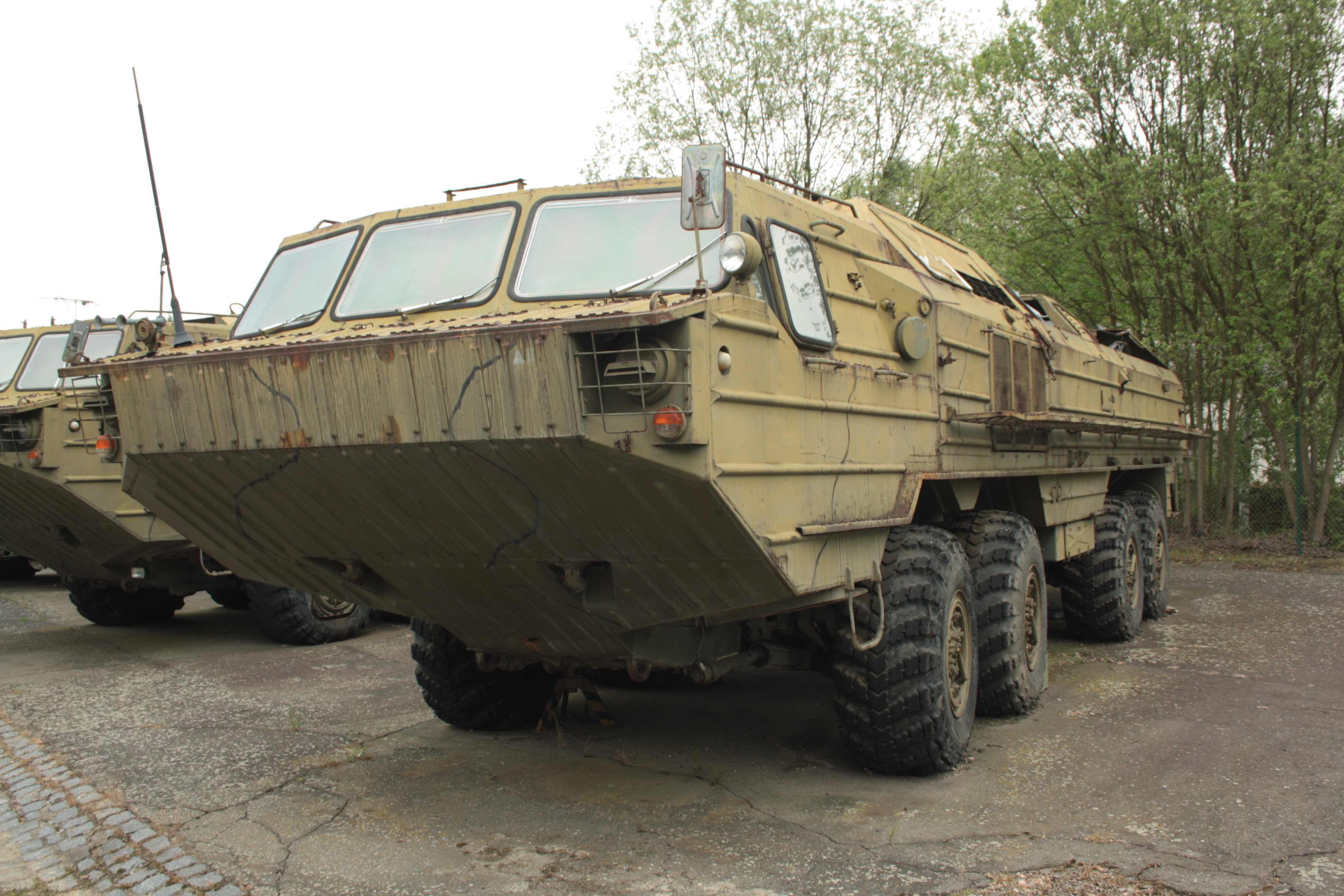 SS-23 spider in Lešany military museum, Central Bohemian Region, CZ This photograph was taken with a DSLR from WMCZ's Camera grant. This picture was taken and/or got within the scope of the 'Acquiring scientific and specialized pictures' grant.